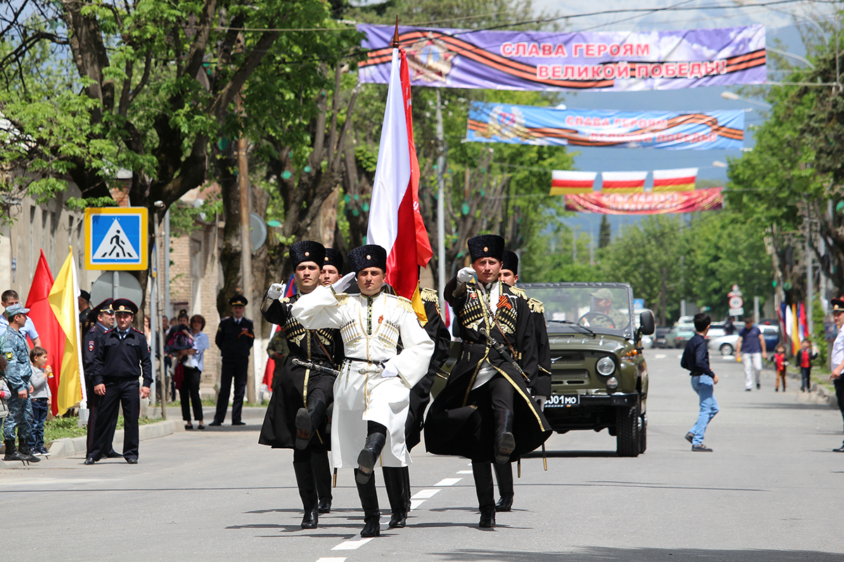 Военнослужащие российской военной базы 58-й общевойсковой армии Южного военного округа (ЮВО) в Республике Южная Осетия приняли участие в параде в ознаменование 73-й годовщины Победы в Великой Отечественной войне